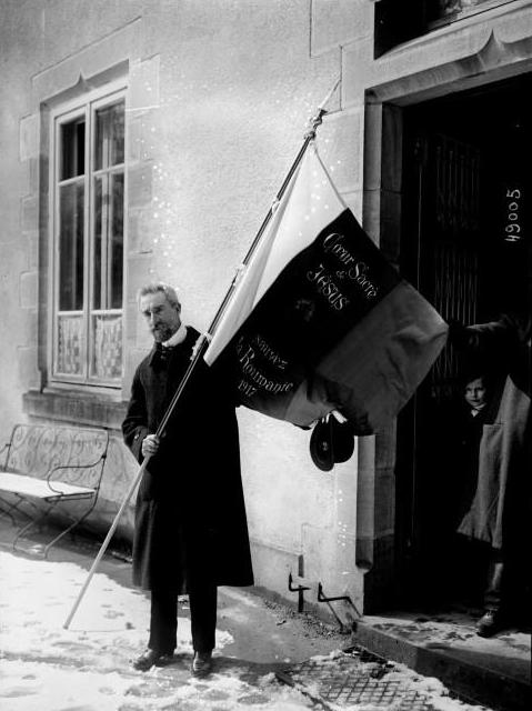 ("Paray-le-Monial, Saône-et-Loire, 26/3/17, ceremony of the Allied banners, prince Ghika is carrying the emblazoned banner of the Sacred Heart of Jesus of Romania"). Ghika, a Romanian aristocrat and convert to Roman Catholicism, was a lay apostle in Villejuif during World War I. Later ordained and returning to Romania for missionary work, he died in 1954, as a political prisoner of the communist regime.